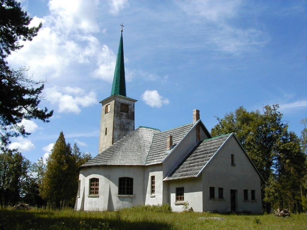 Allaži church